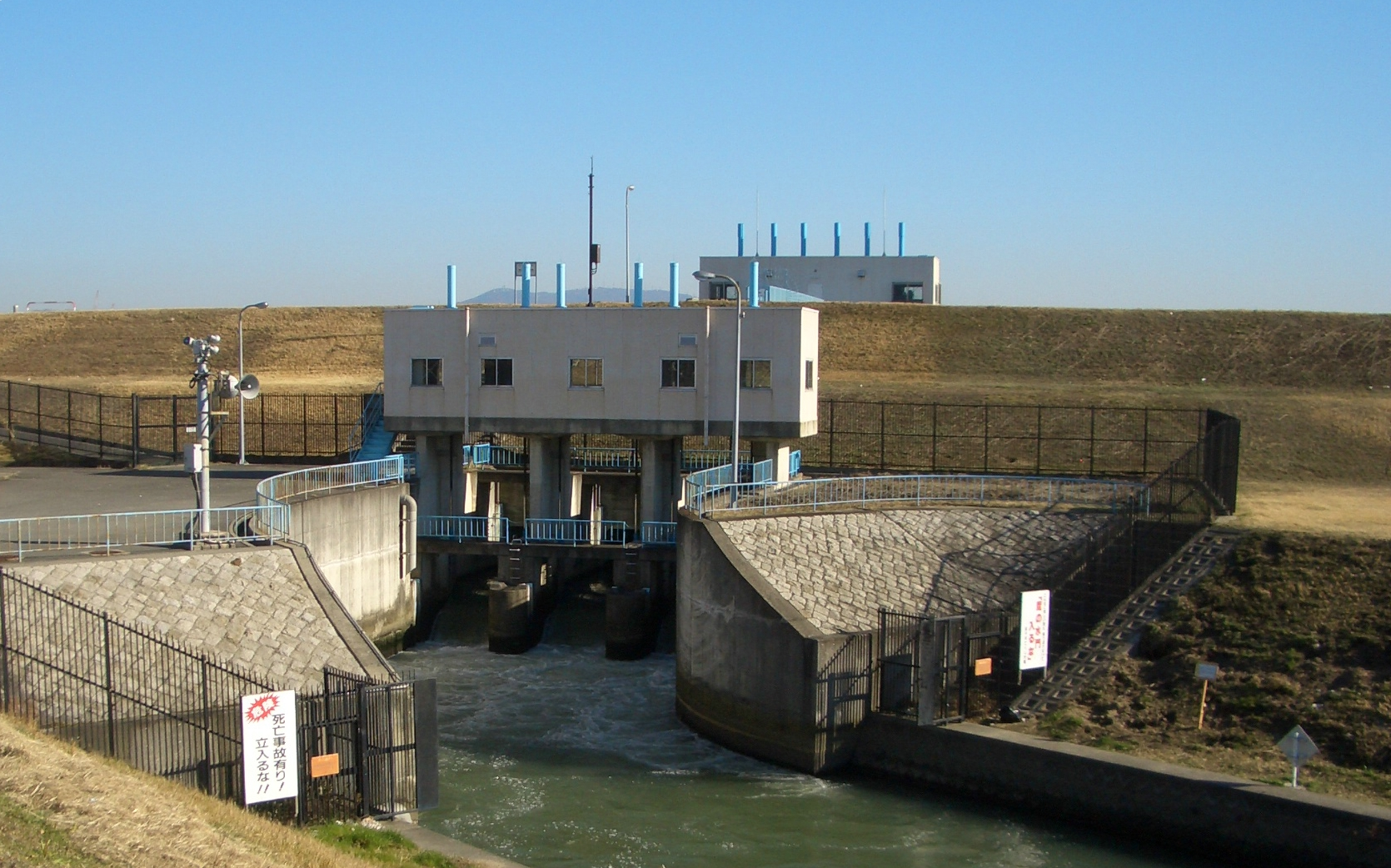 Kannzaki_River_Source in Settu city,Osaka,Japan. 神崎川の源流 大阪府摂津市